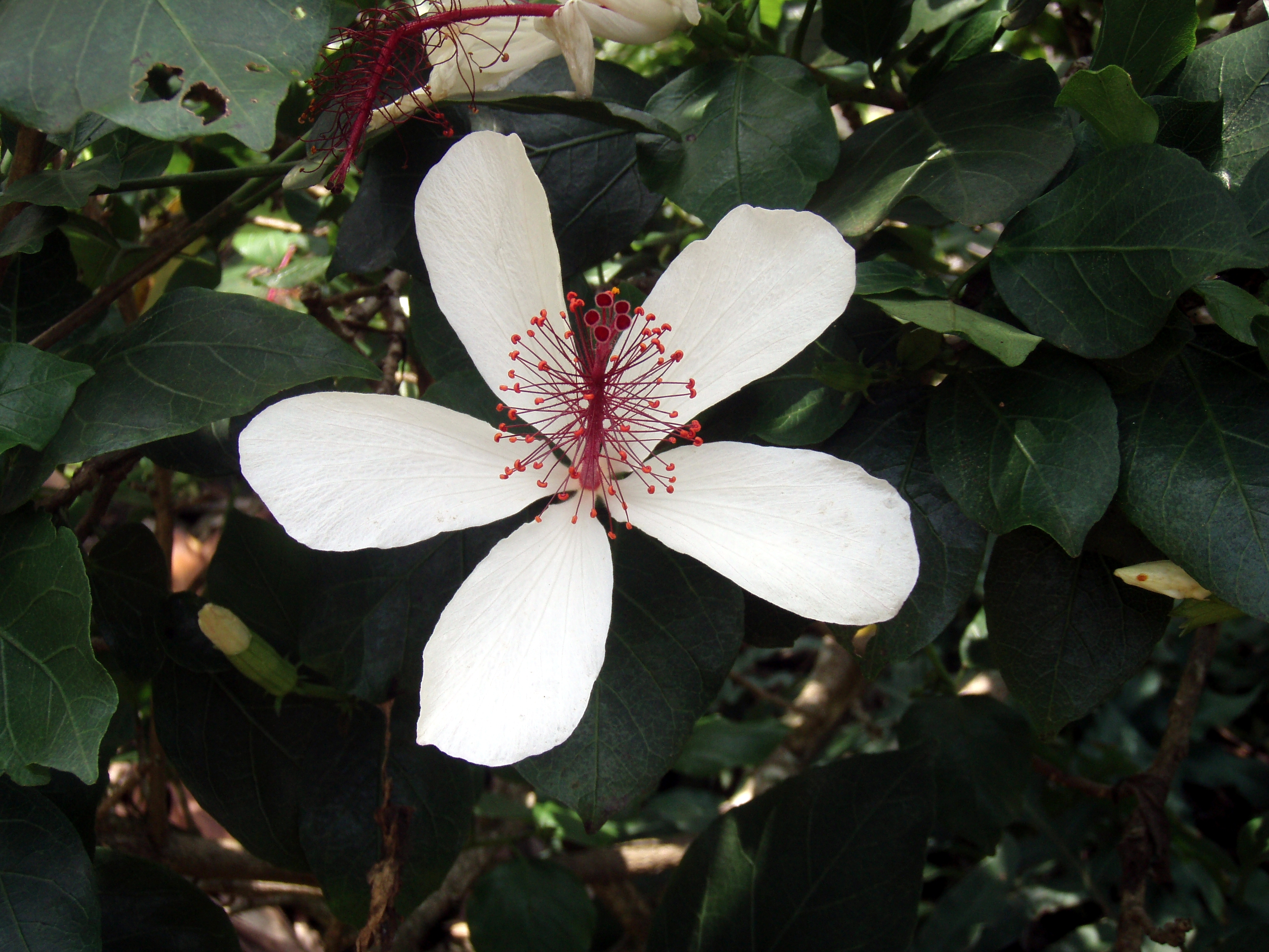 A native Haiian Plant Koki'o ke'oke'o, Hibiscus arnottianus. The picture was taken by Brocken Inaglory